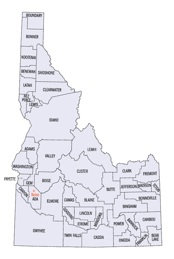 Map of Idaho, with county borders.